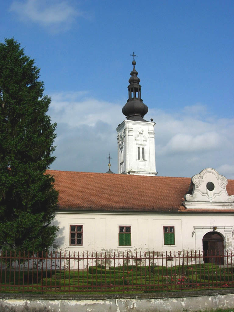 The Bođani Monastery, Serbia.